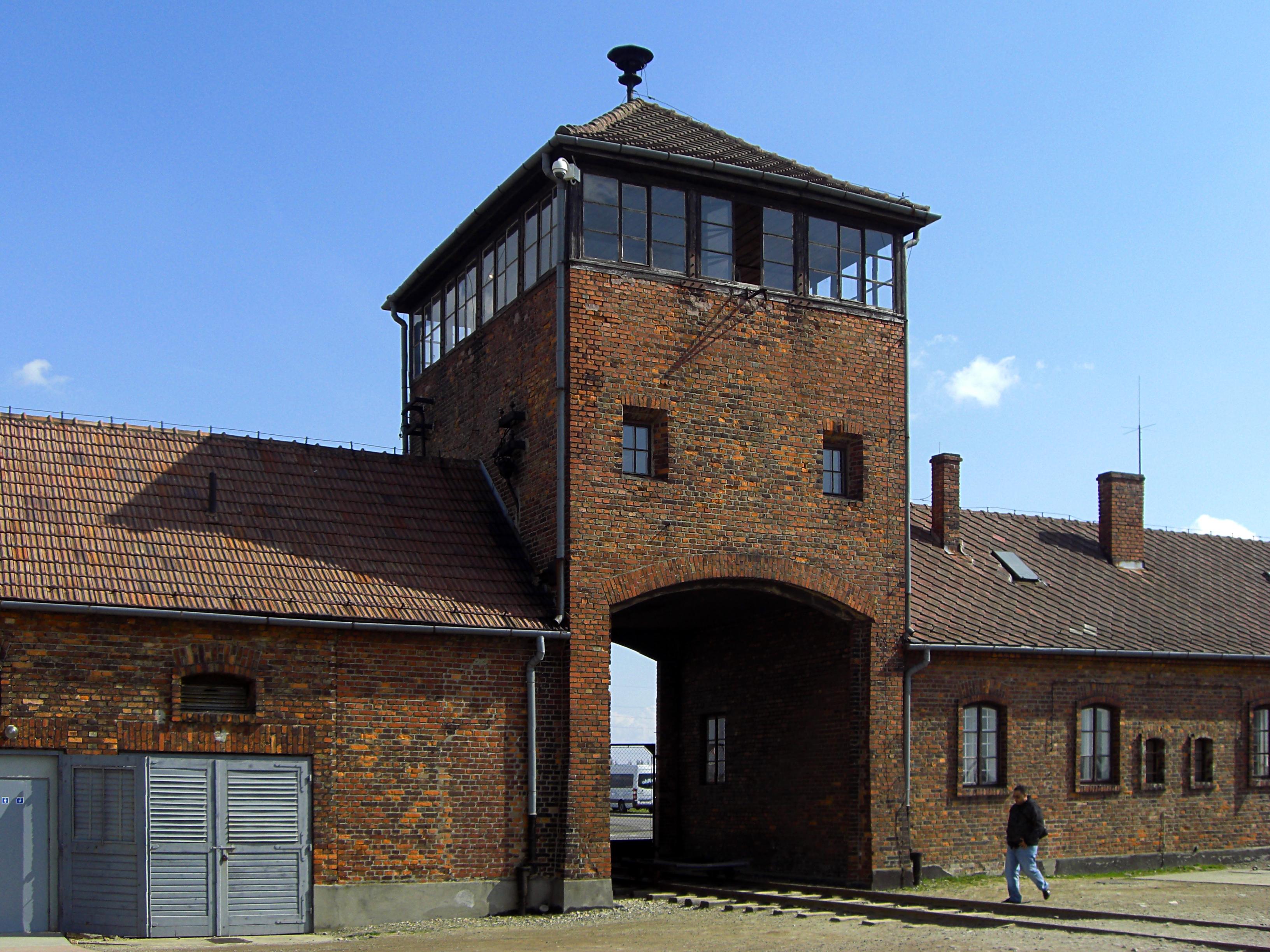 Gatehouse Auschwitz II (Birkenau), Poland